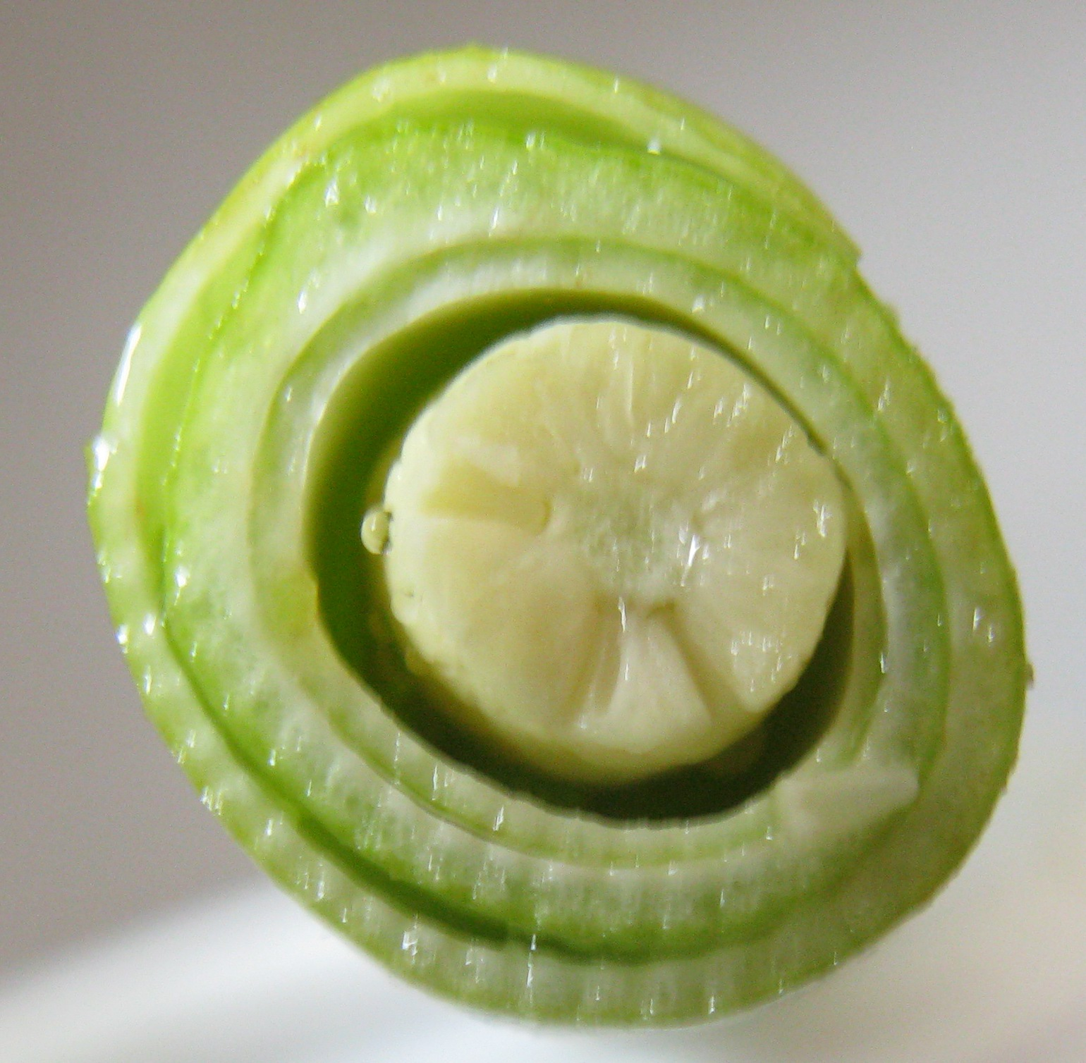 A single leaf or bract is convolute when one edge overlaps the opposite edge, commonly wound round the inflorescence in the bud stage